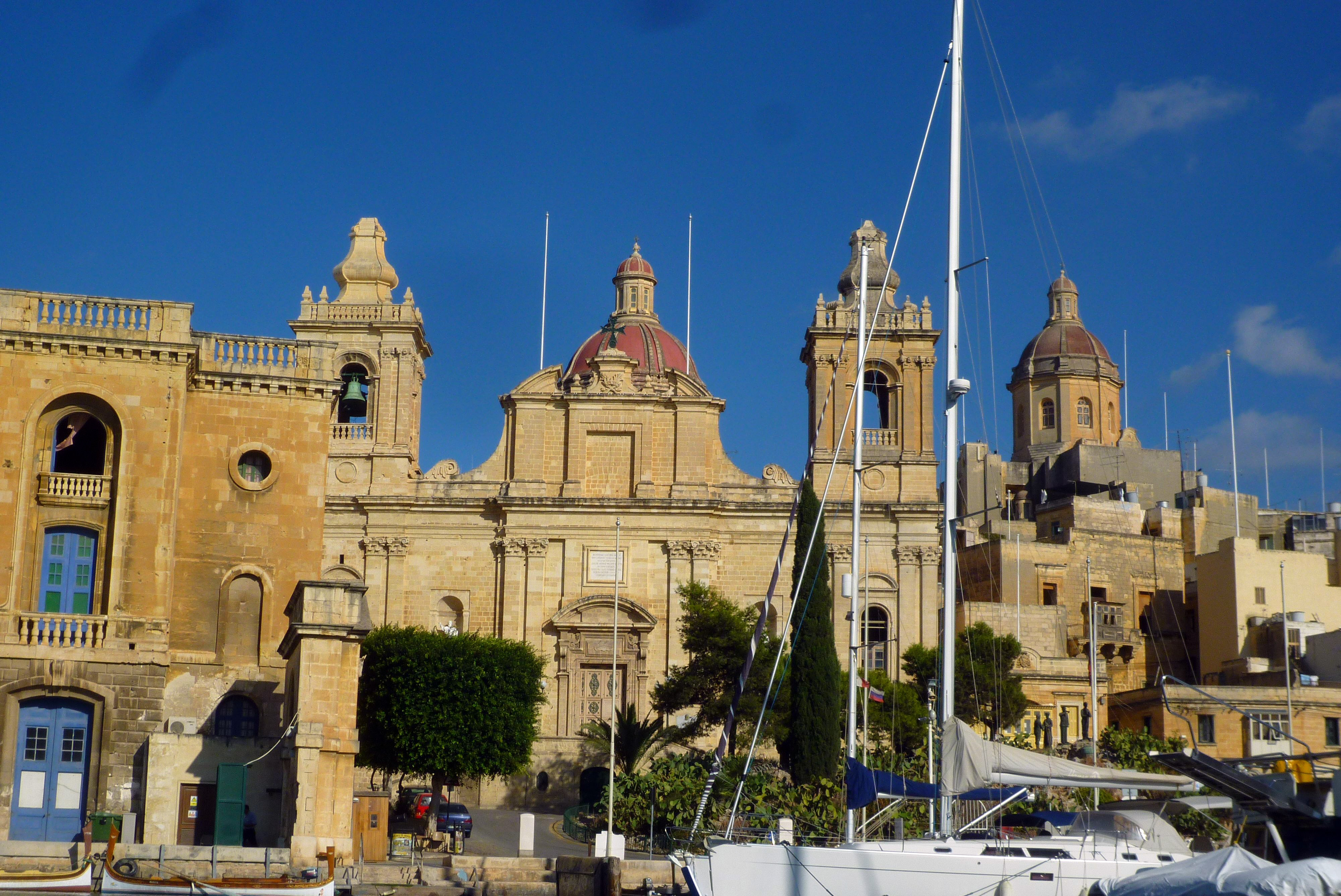 St. Lawrence parish church in Birgu, Malta (Citta Vittoriosa)